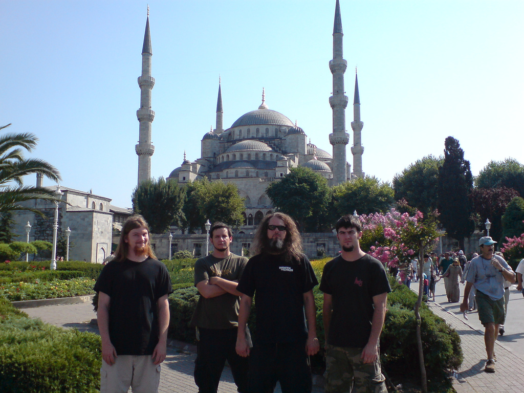 photo of the band Misery Index